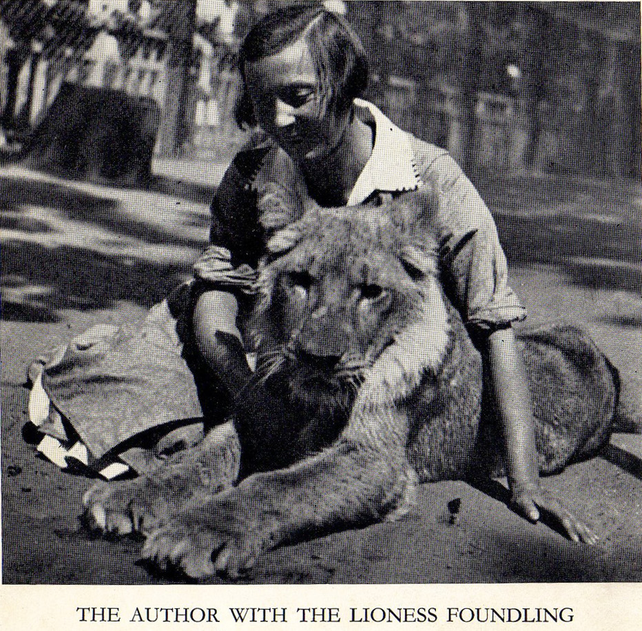 Soviet children's literature writer, naturalist Vera Chaplina (1908 – 1994) with lioness Kinuli at the Moscow Zoo, summer 1936.